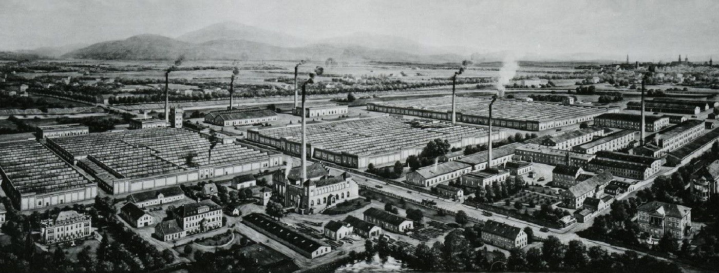 "S. Fränkel" Tischzeug & Leinwand Fabrik, Neustadt in Oberschlesien